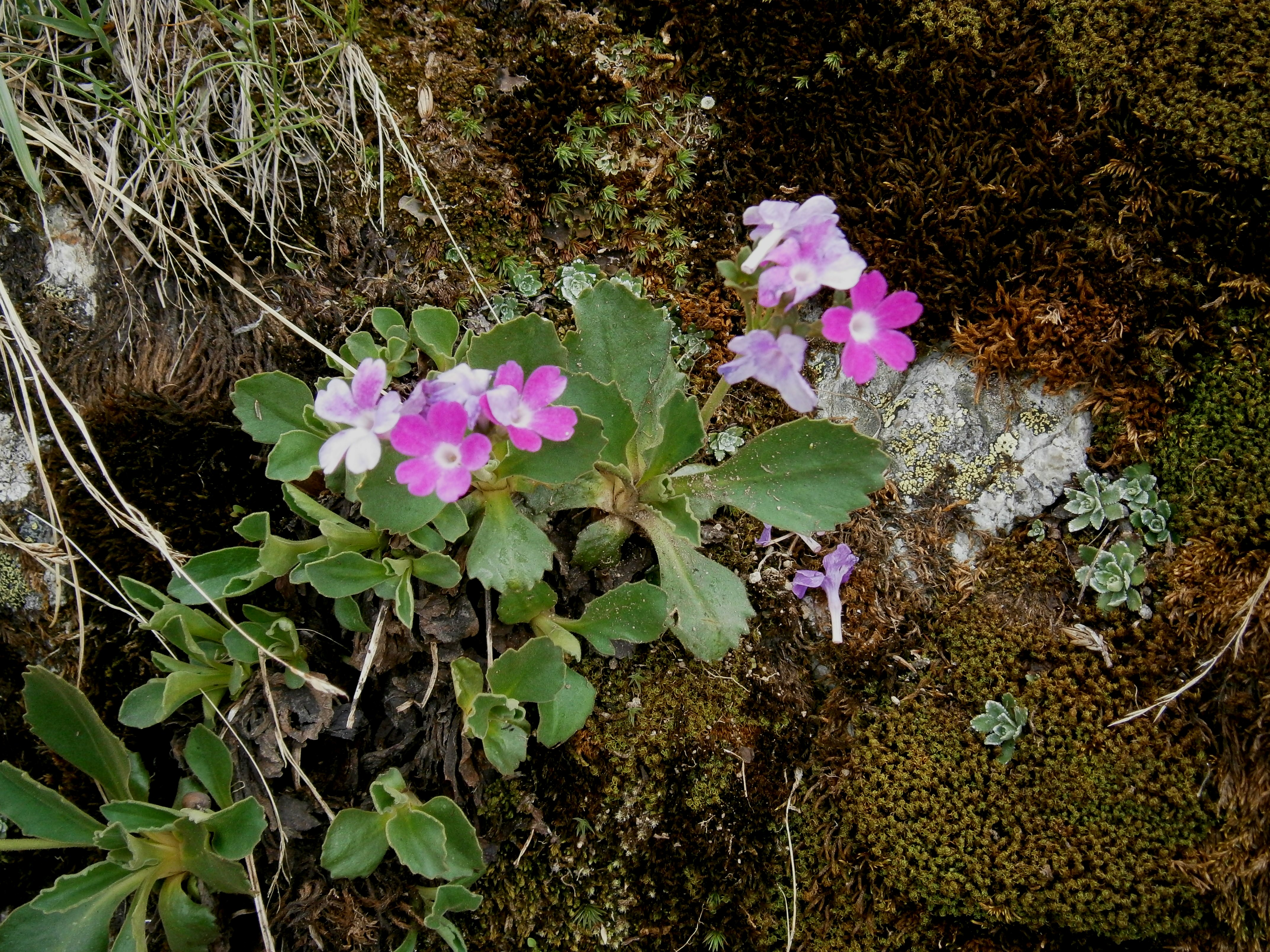 Primula hirsuta